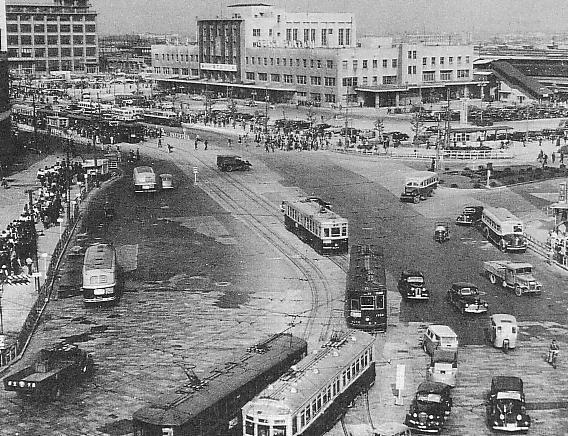 Osaka Station circa 1950